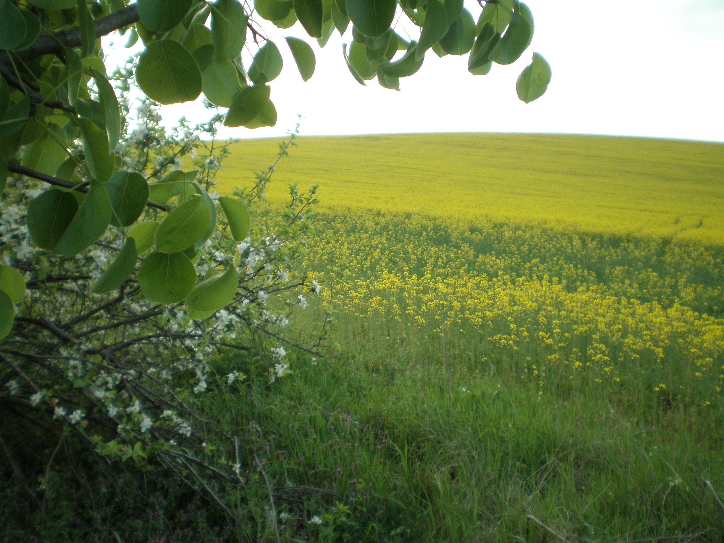 Rapeseed field